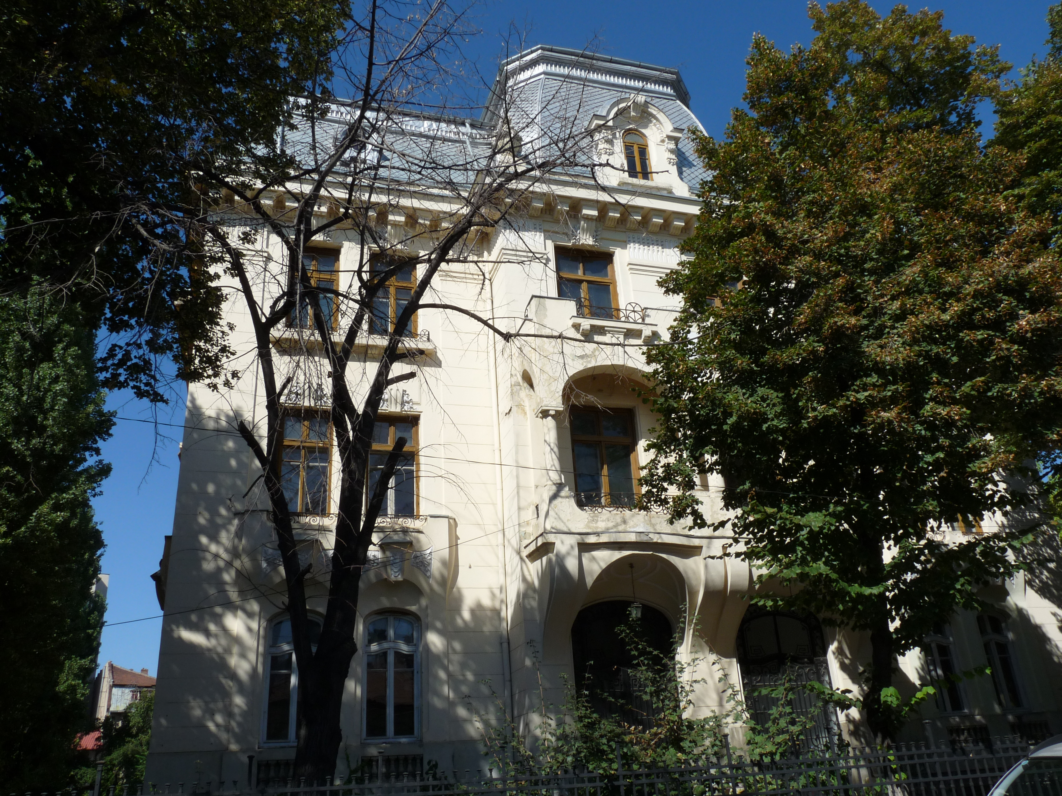 Building from Tomas Masaryk street 25 in Bucharest, RomaniaRomână: Clădire monument istoric din strada Tomas Masaryk nr. 25, București, România